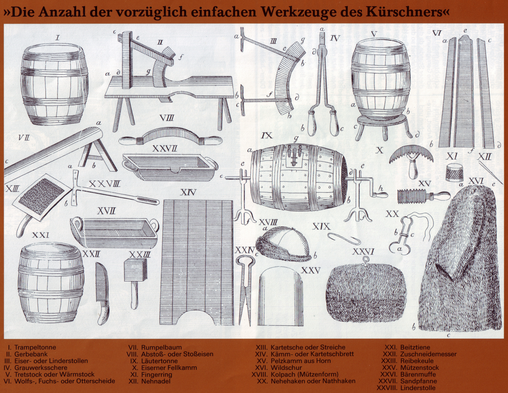 Furrier's tools